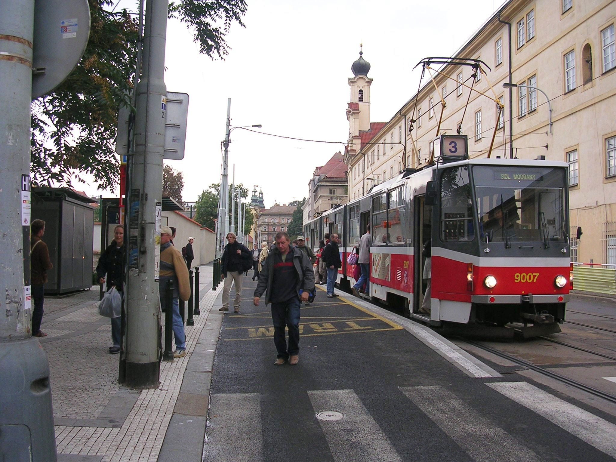 Prague, New Town. Tram stop Albertov.